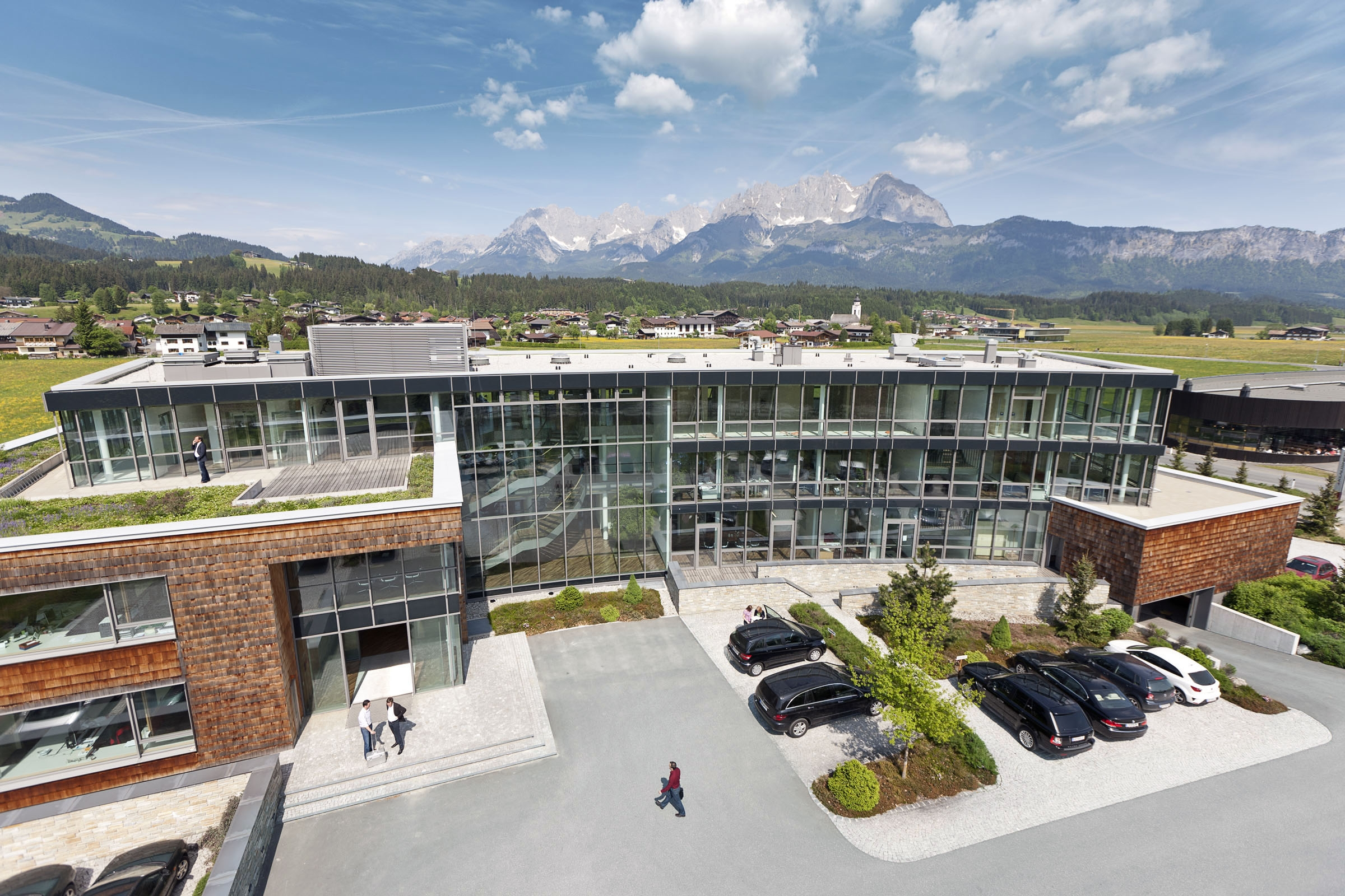 Klausner Trading International GmbH